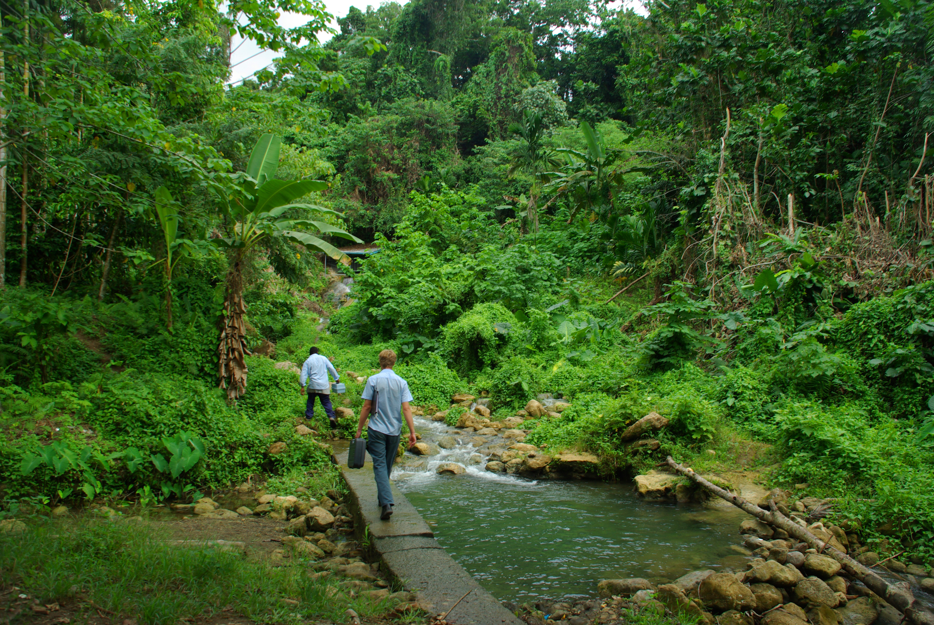 Solomon Water Volunteer Louis Downing crosses the Kongulai river with his counterpart Josh Torenn on his way to conduct tests at the Kongulai water source. The Kongulai provides Honiara with approx. 60% of their water. Photo taken by Irene Scott for AusAID. (13/2529)